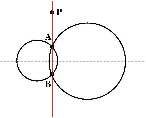 Powerline (radical axis) for two intersecting circles